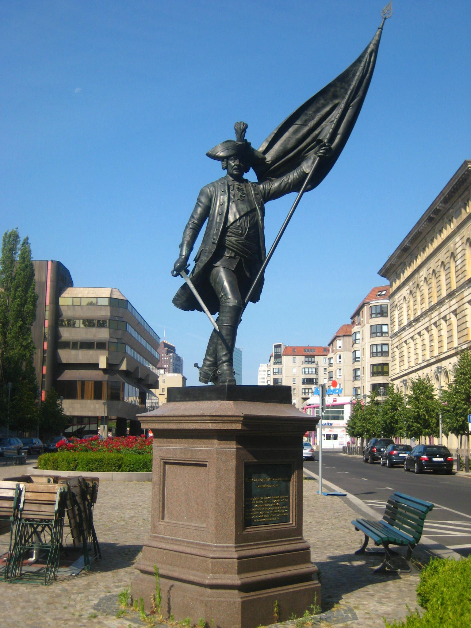 Memorial for General Field Marshal Kurt Christoph Graf von Schwerin at the northeastern corner of Zietenplatz in Berlin-Mitte. A marble version of the memorial, created by François Gaspard Adam and Sigisbert François Michel, was first erected on nearby Wilhelmplatz (which now longer exists) in 1769. In the 19th century, it was replaced by a bronze version by August Kiß who redesigned the monument. The original mable sculpture now has its place in the Bode-Museum; Kiß' version was removed in WWII and, after being stored away for decades, was re-erected near the original site in September 2009.